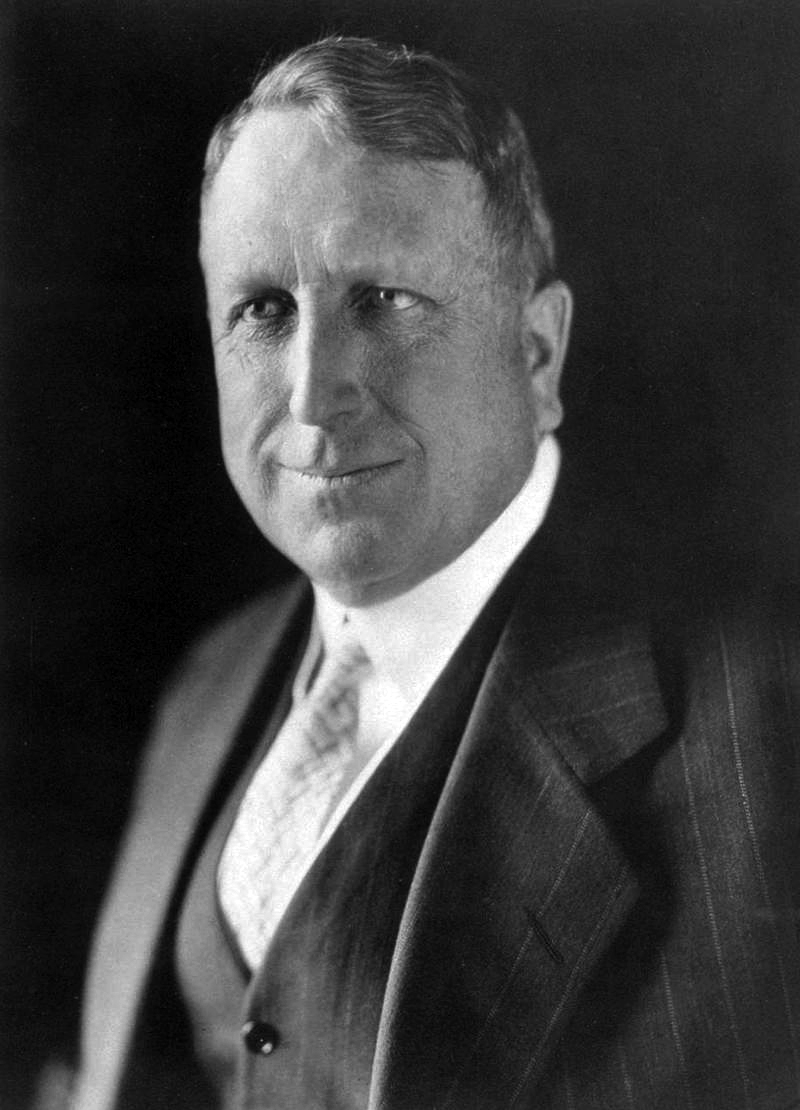 Depicted person: William Randolph Hearst – American newspaper publisher